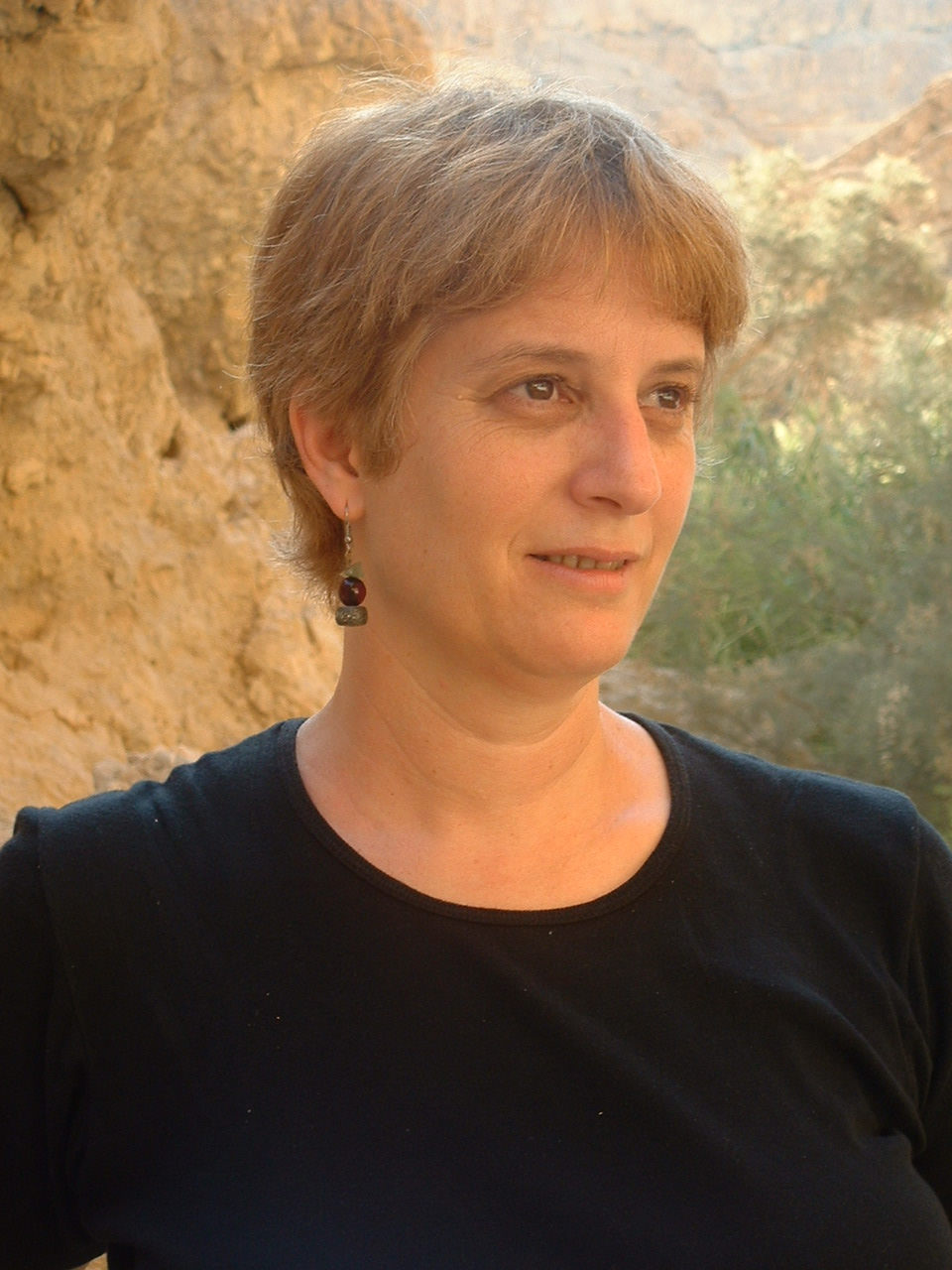 Irit Meir (August 1957 – February 1918), an Associate Professor of Linguistics at the University of Haifa, Israel. The photo was taken in the Dead Sea in Israel, by her husband.